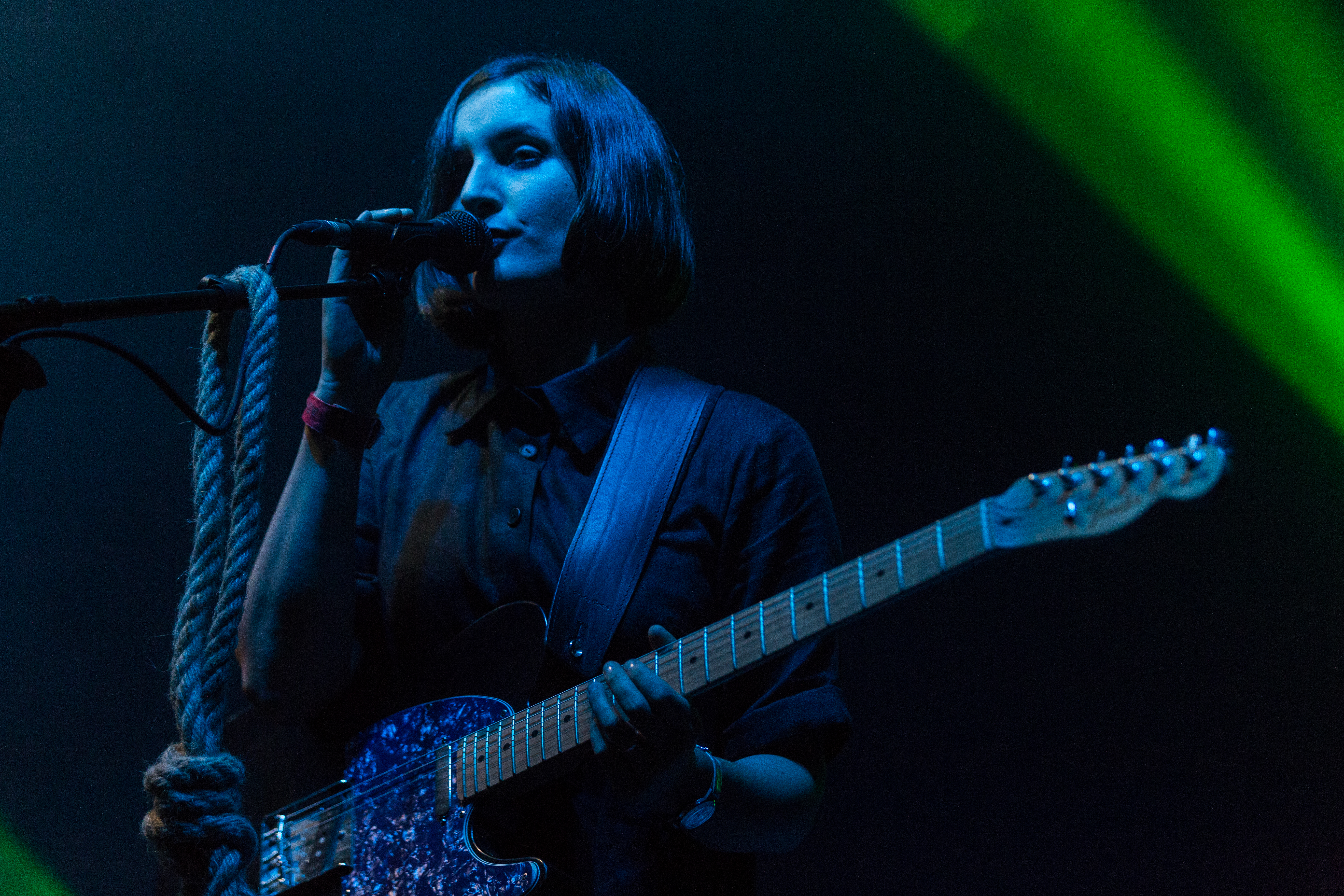 The Swiss-british dark wave band Lebanon Hanover at the Wave-Gotik-Treffen 2017 in Leipzig/Germany (Venue Stadtbad).